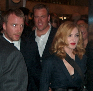 Guy Ritchie